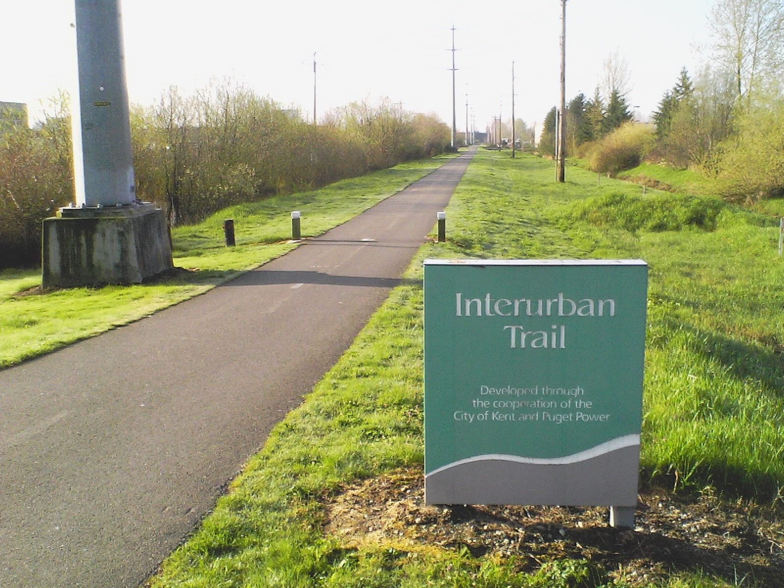 A welcome sign on the Interurban trail in Kent, WA, showing the trail behind.